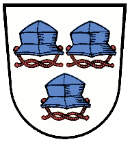 Coat of Arms of Landshut